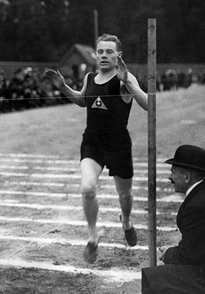 Paavo Nurmi breaks the 1,500 m world record in Helsinki in 1924. 45 minutes later, he broke the world record for the 5,000 m.